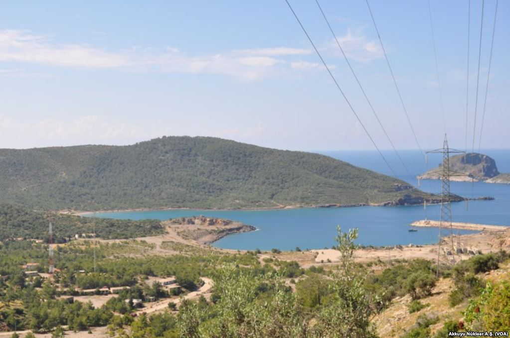 Construction area of Akkuyu Nuclear Power Plant, Gülnar, Mersin, Turkey.